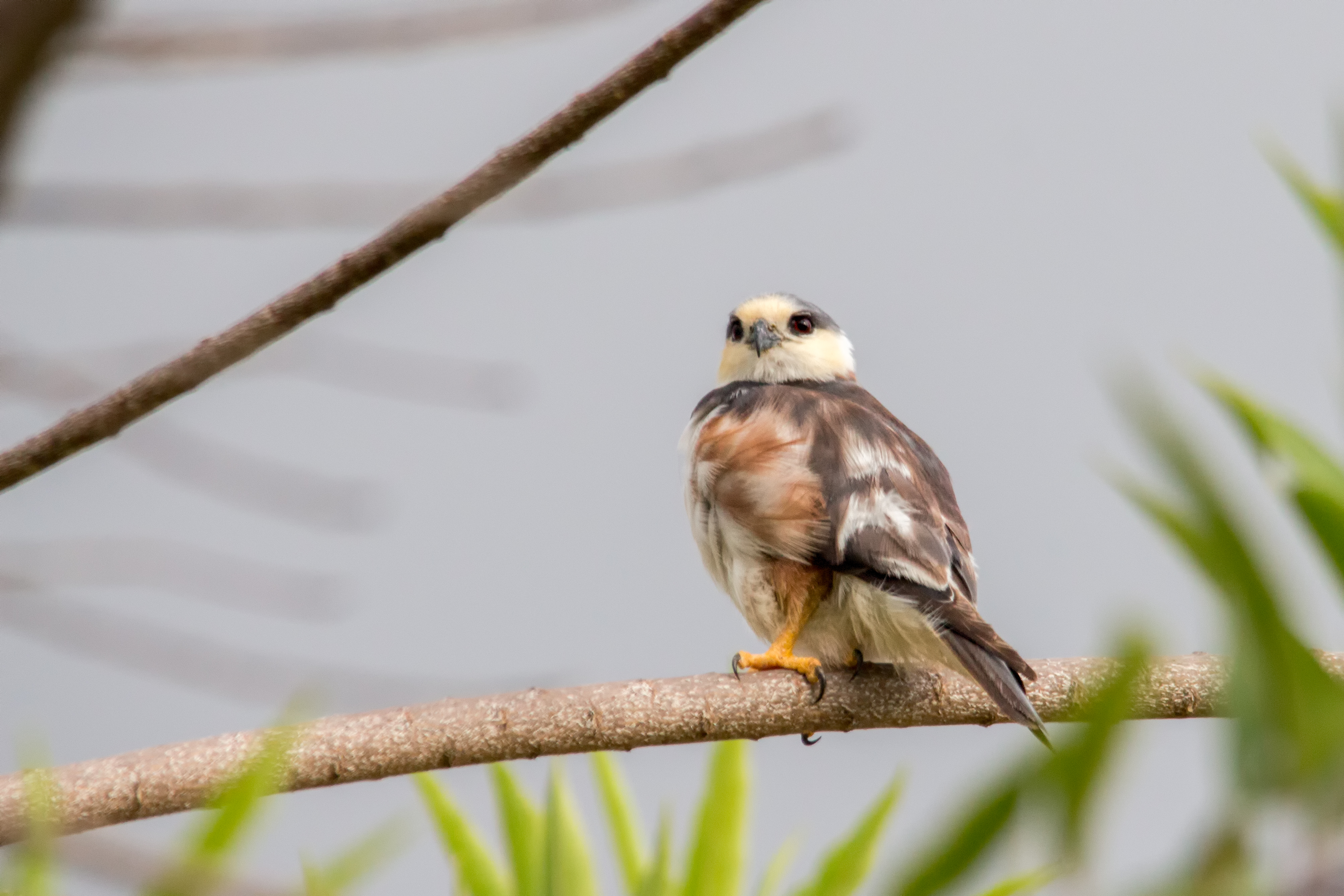 Pearl Kite | Cernícalo (Gampsonyx swainsonii leonae)